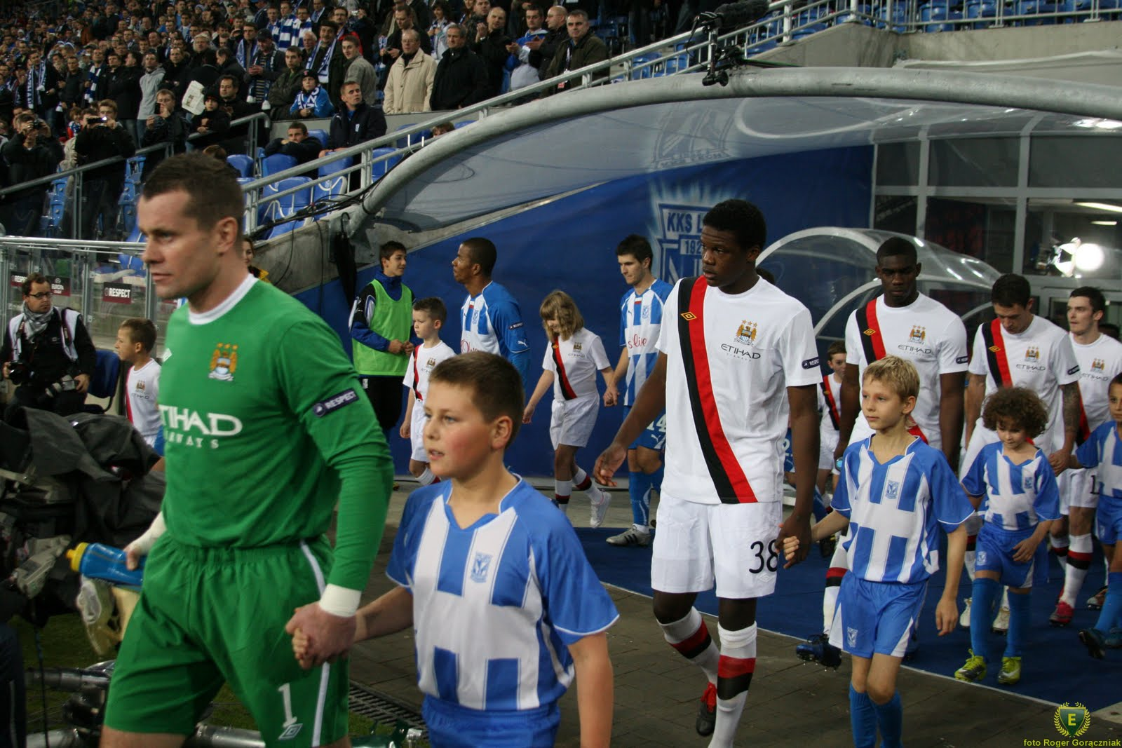 Man City go onto pitch Lech Poznań vs Manchester City FC, 4 November, 2010